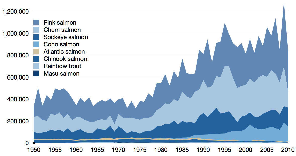 Global commercial capture of all wild salmon species in tonnes, 1950–2010, as reported by the FAO. Based on data sourced from the relevant FAO Species Fact Sheets